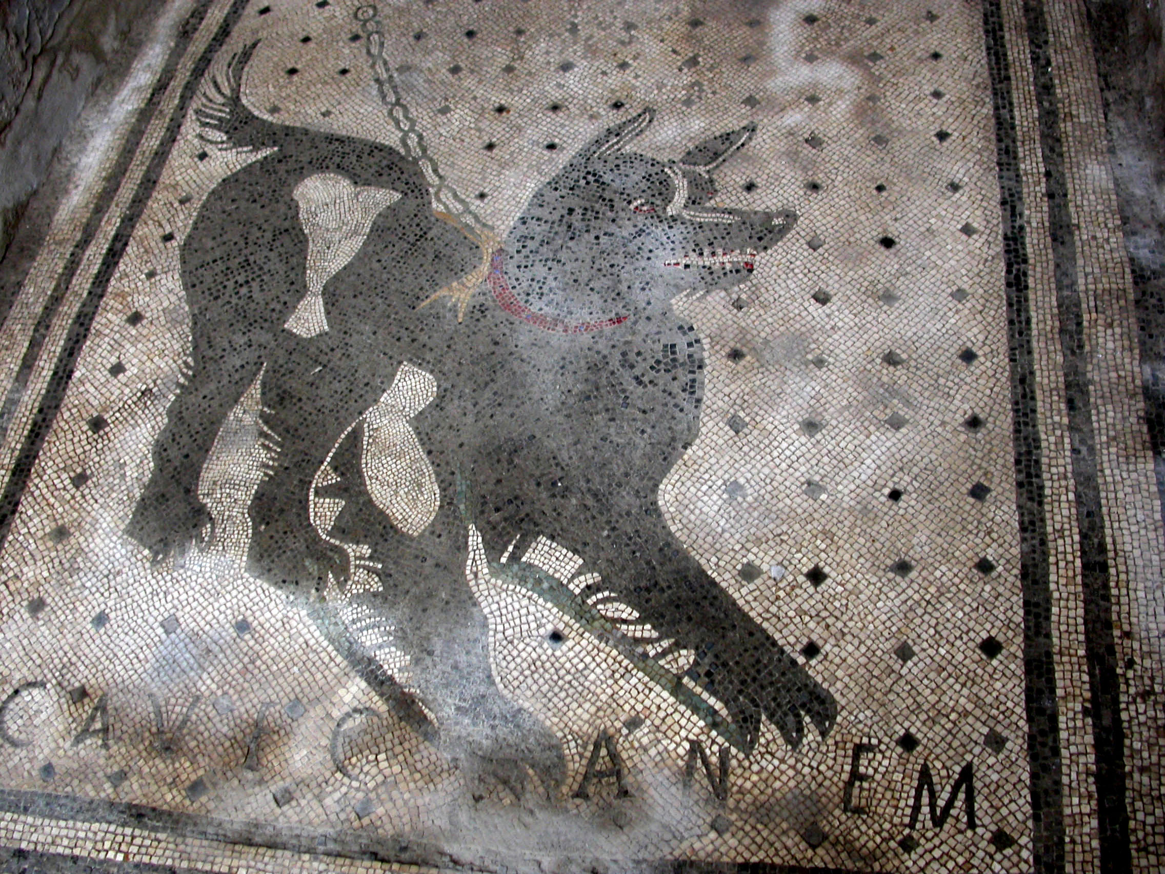 Cave canem mosaic from Pompeii